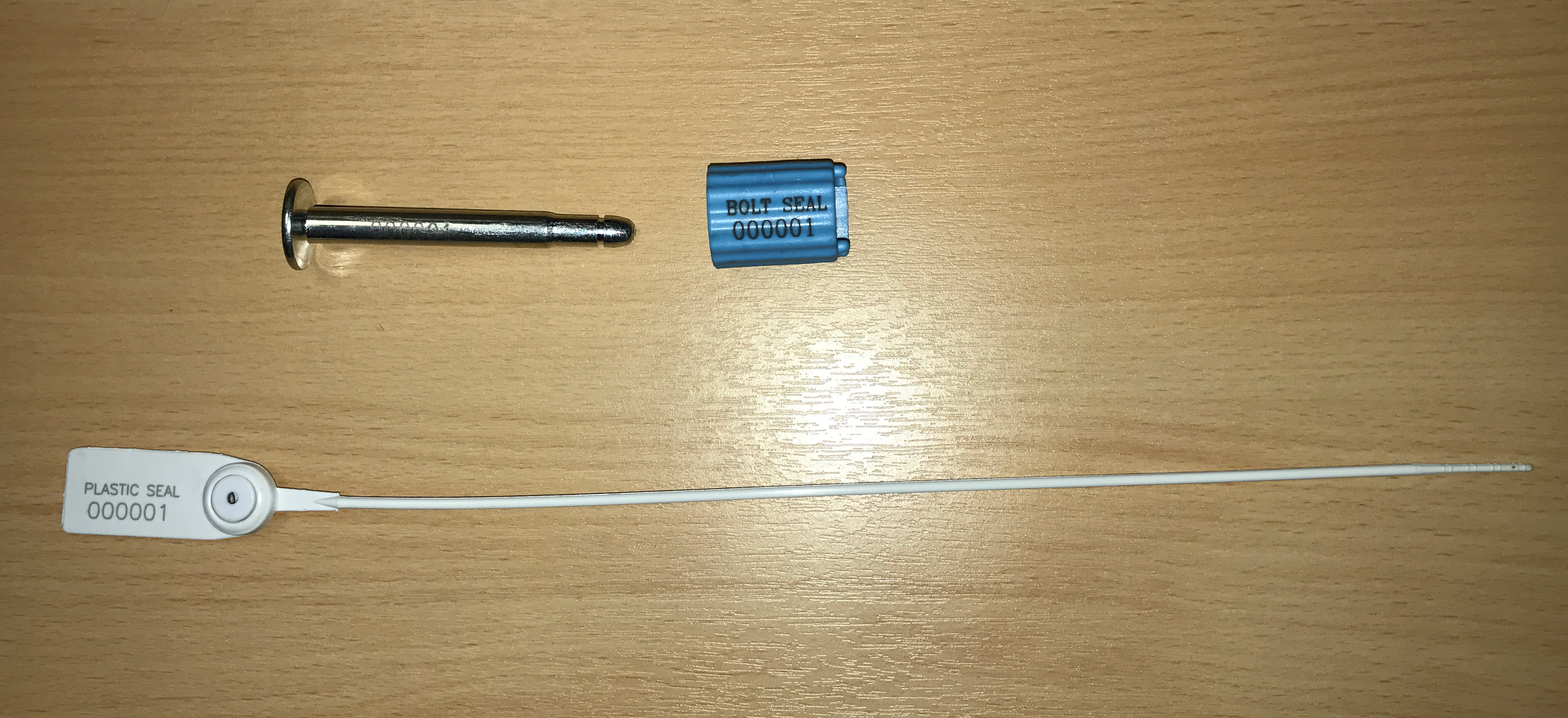 Basic Bolt Seal and Pull Tight Security Seal